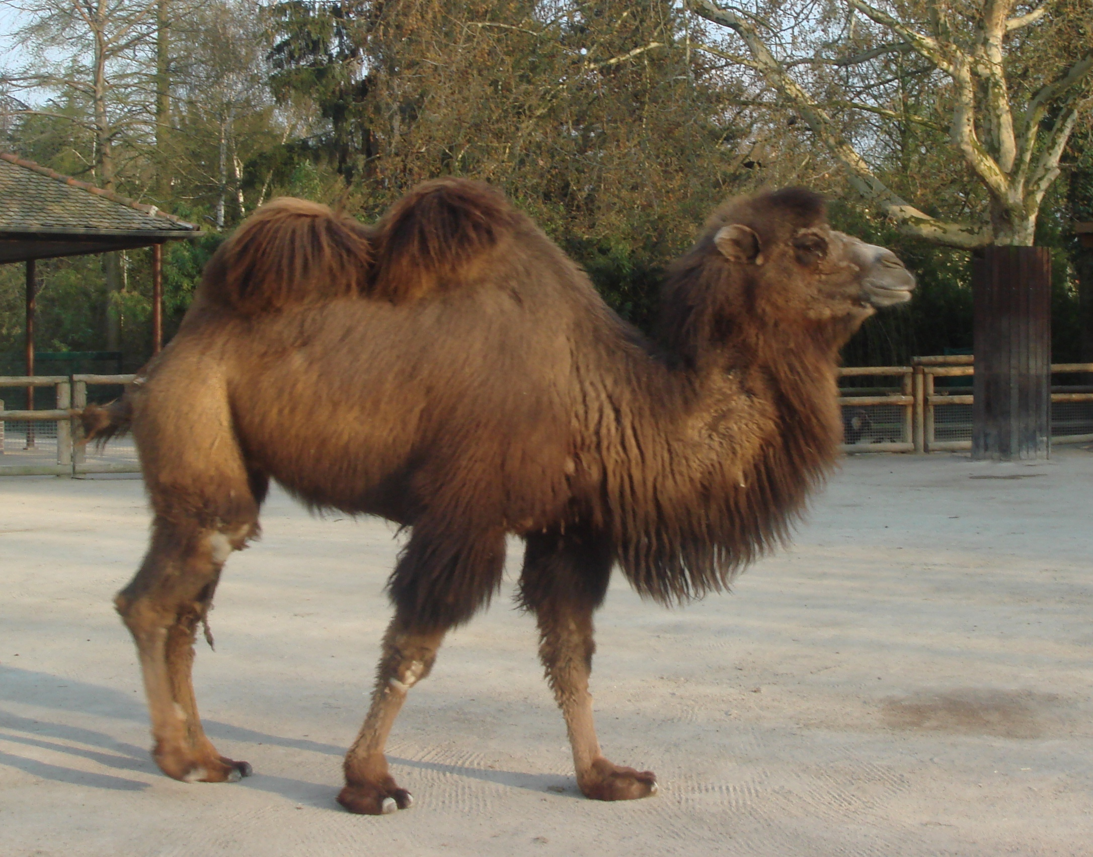 Photo of a Bactrian Camel (Camelus bactrianus) in Frankfurt Zoo, taken by ElinorD on 9 April 2007.